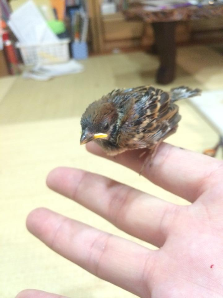 janaese_Passer_montanus_on_hand